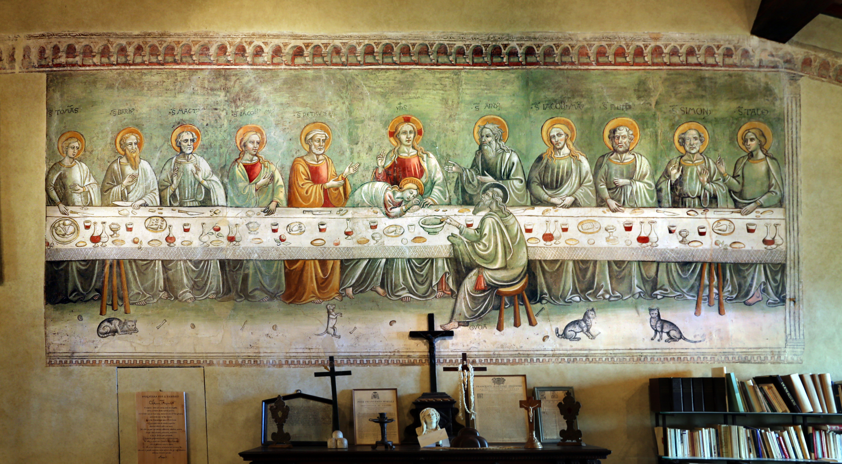 Sant'Andrea a Cercina - Ex-refectory